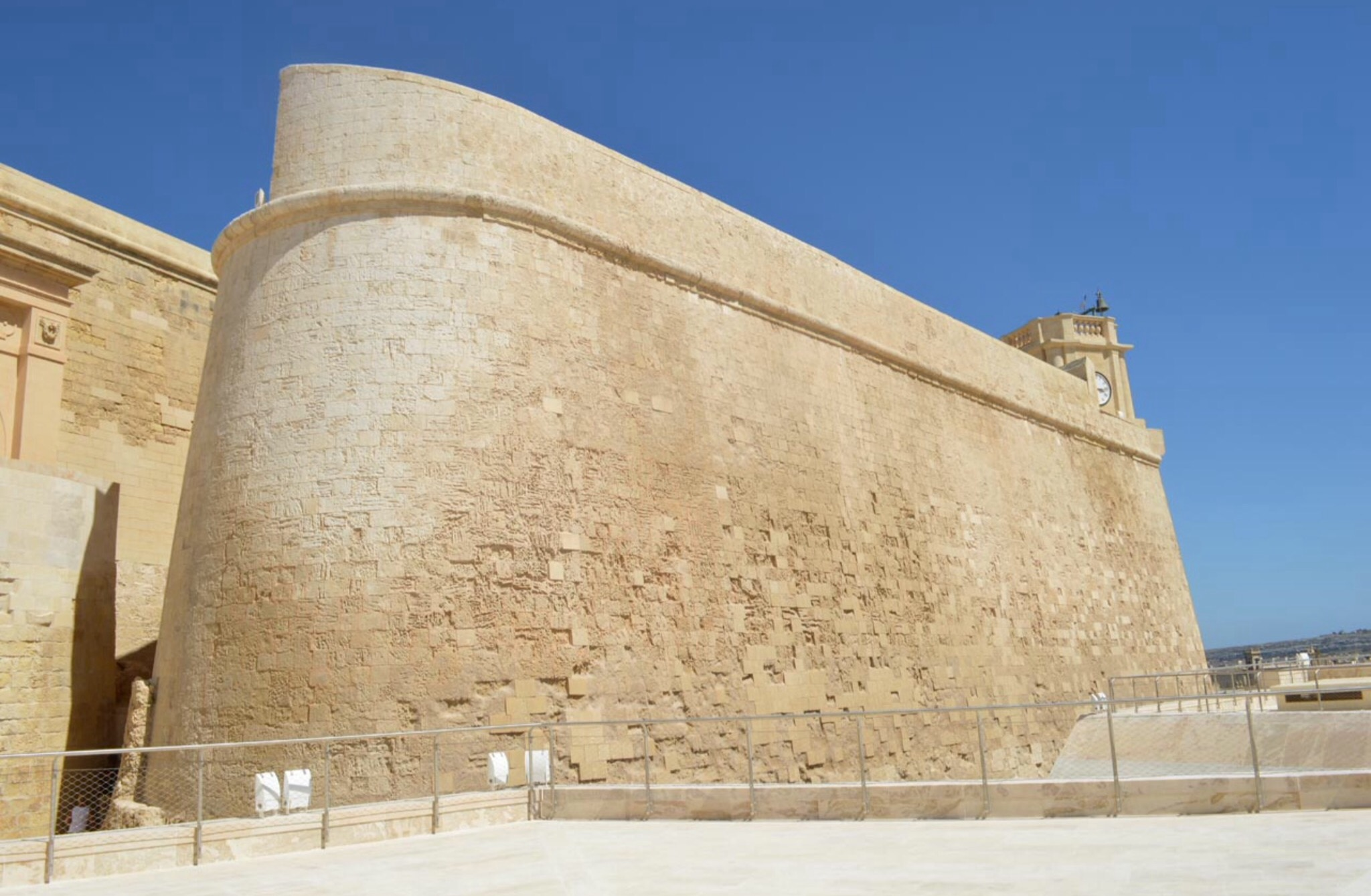 St Michael Bastion - Citadel This media is about Maltese cultural property with inventory number 01463.